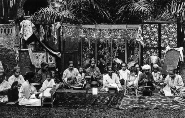 Malay women sit and pose for this photograph.